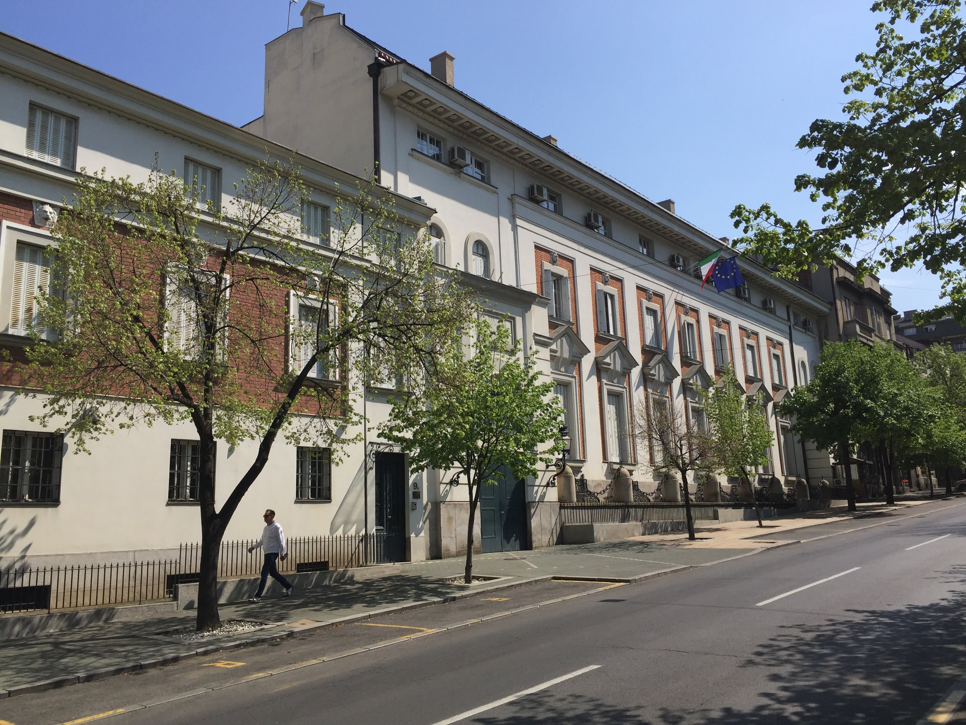 Embassy of Italy in Belgrade.